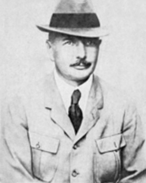 Hans Merensky in Pietermaritzburg, South Africa